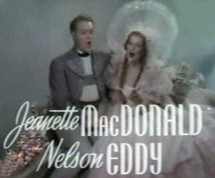 Cropped screenshot of Nelson Eddy and Jeanette MacDonald from the trailer for the film Sweethearts